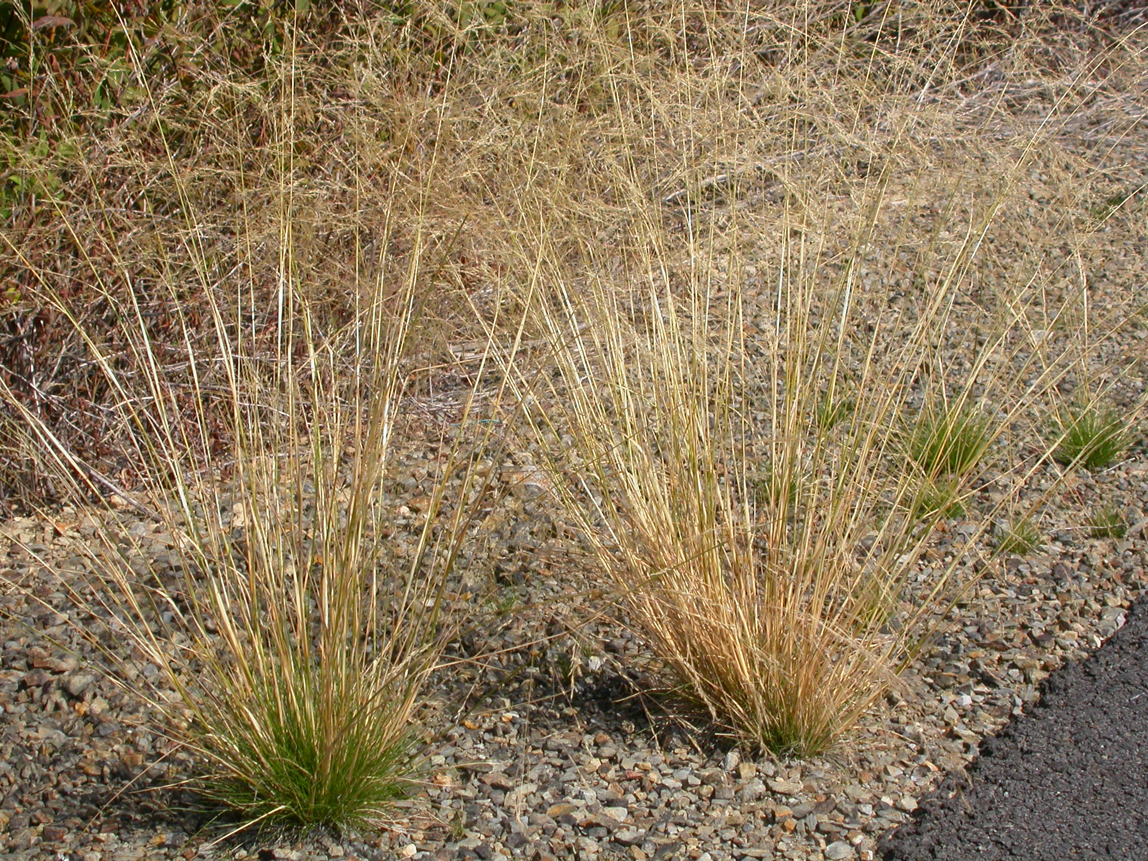 Agrostis scabra (rough bentgrass) — in Cataldo, Idaho, western USA.